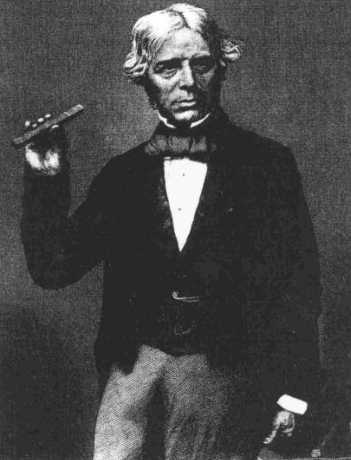 Image of Michael Faraday holding a glass bar of the type he used to show that magnetism affects light; part of a photograph by Maull & Polyblank